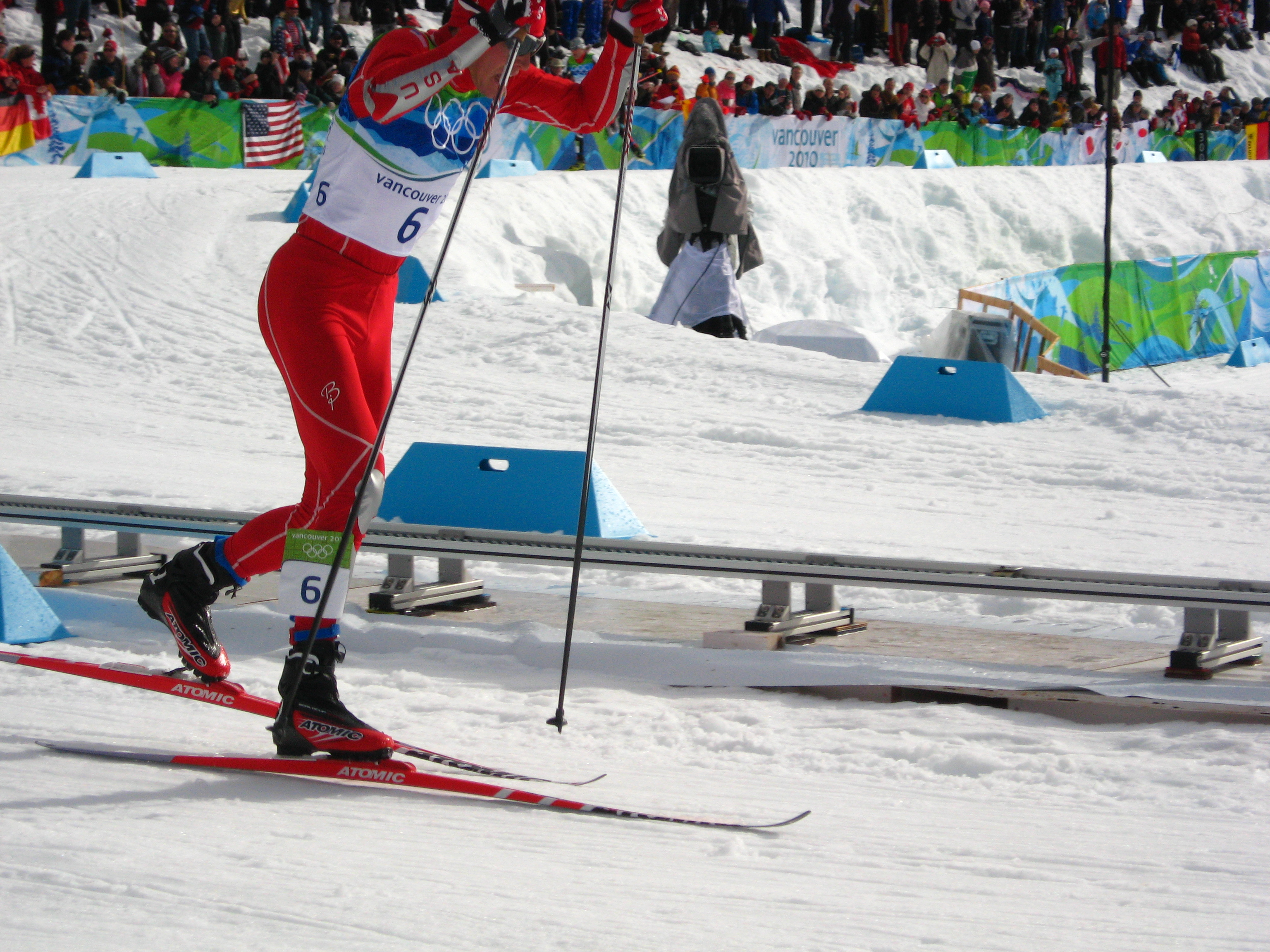 American Nordic combined skier Bill Demong skates to victory in the individual large hill/10 km event at the 2010 Winter Olympics.